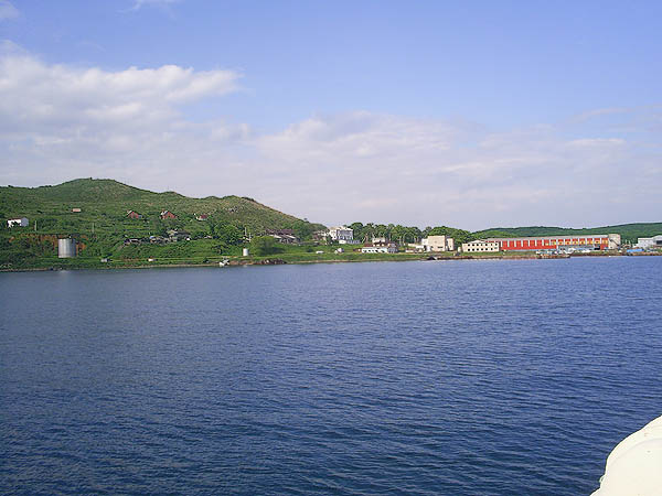 Popova Island, near Vladivostok